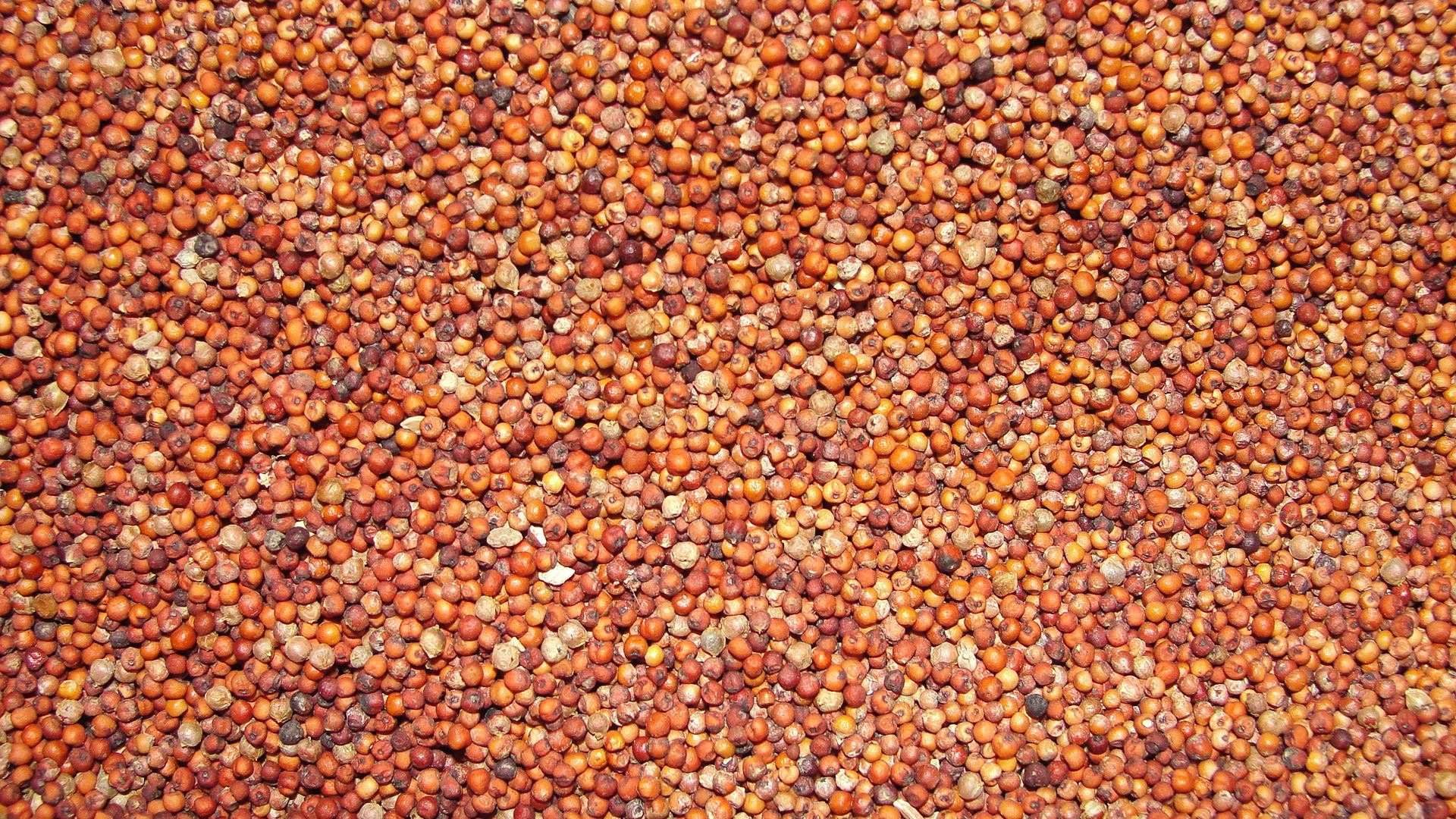 Ragi closeup